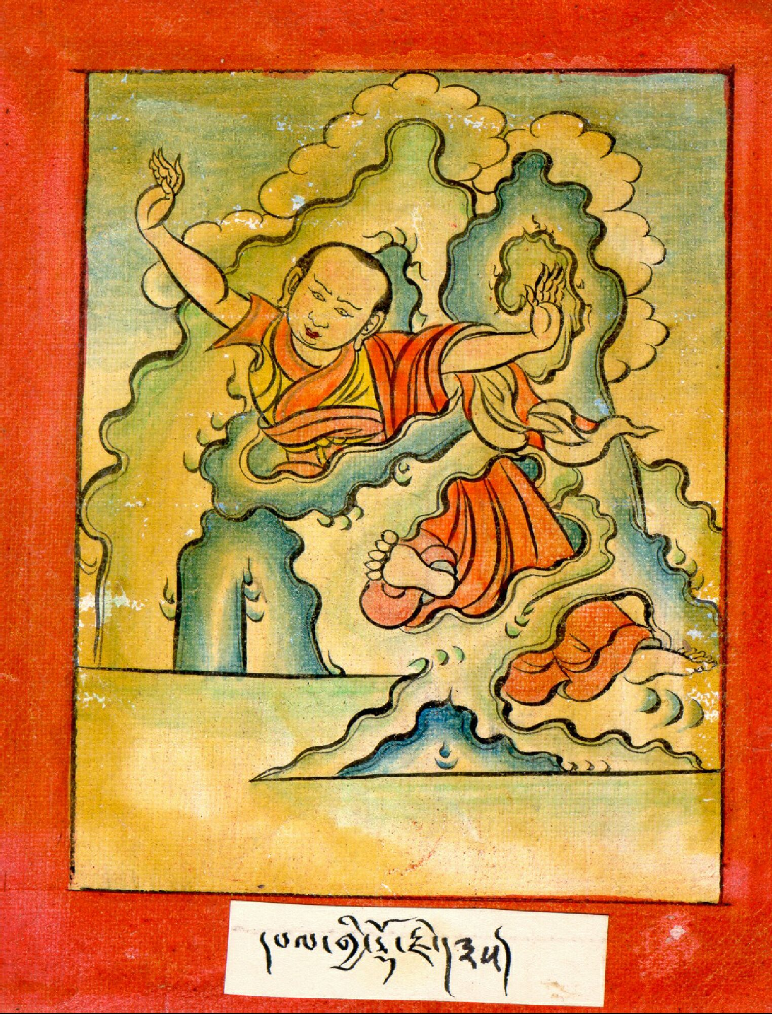 Lhalung_Palgyi_Dorje, 8th Century Tibetan monk